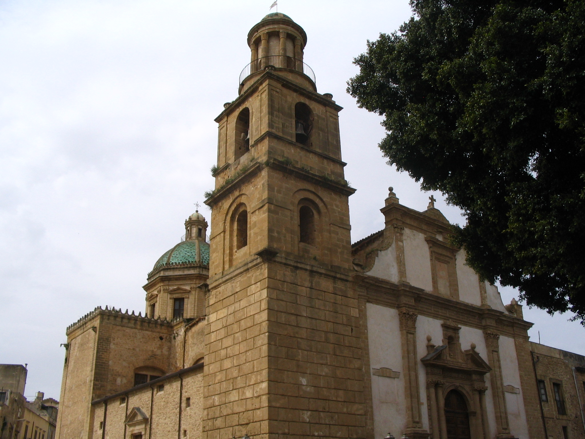 Castelvetrano